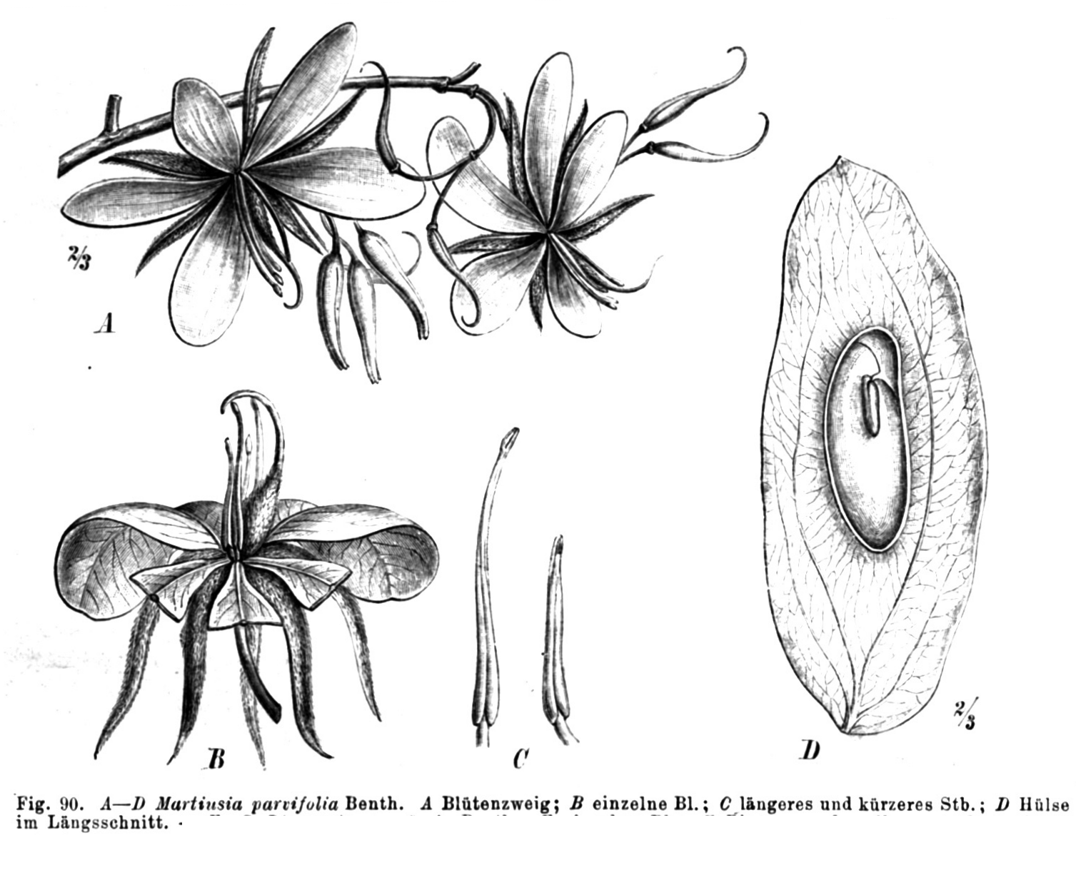 Illustration from book